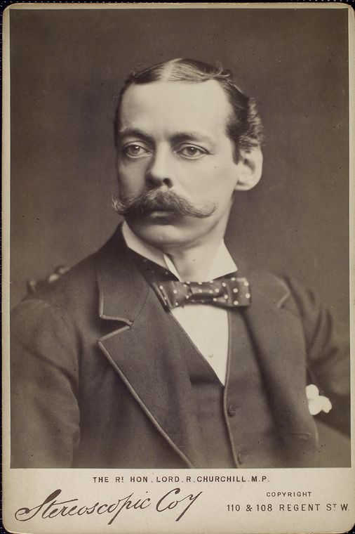 Randolph Churchill, British politician, father of Winston Churchill.